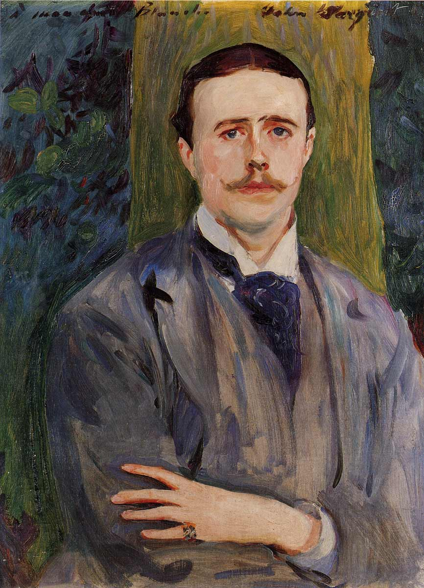 Portrait of Jacques-Emile Blanche (1861-1942)